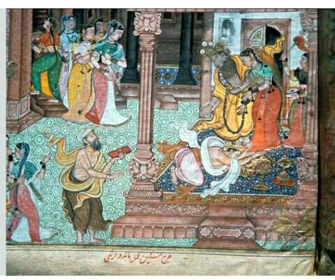 By Miskina & Mandu firangi